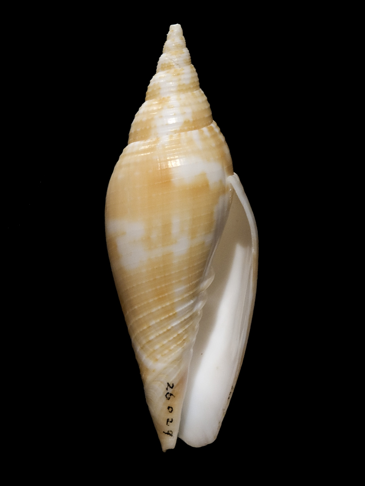 Photo of apertural view of the shell of Pleioptygma helenae (Radwin & Bibbey, 1972).Pleroptygma Helenae (Helen’s Miter) Honduras HMNS 26029 Wikipedia Loves Art at the Houston Museum of Natural Science This photo of item # 26029 at the Houston Museum of Natural Science was contributed under the team name "Assignment_Houston_One" as part of the Wikipedia Loves Art project in February 2009. Houston Museum of Natural Science The original photograph on Flickr was taken by skarsol—please add a comment to the original Flickr page whenever a use has been made on Wikipedia or another project. Project galleries on Flickr: this institution, this team